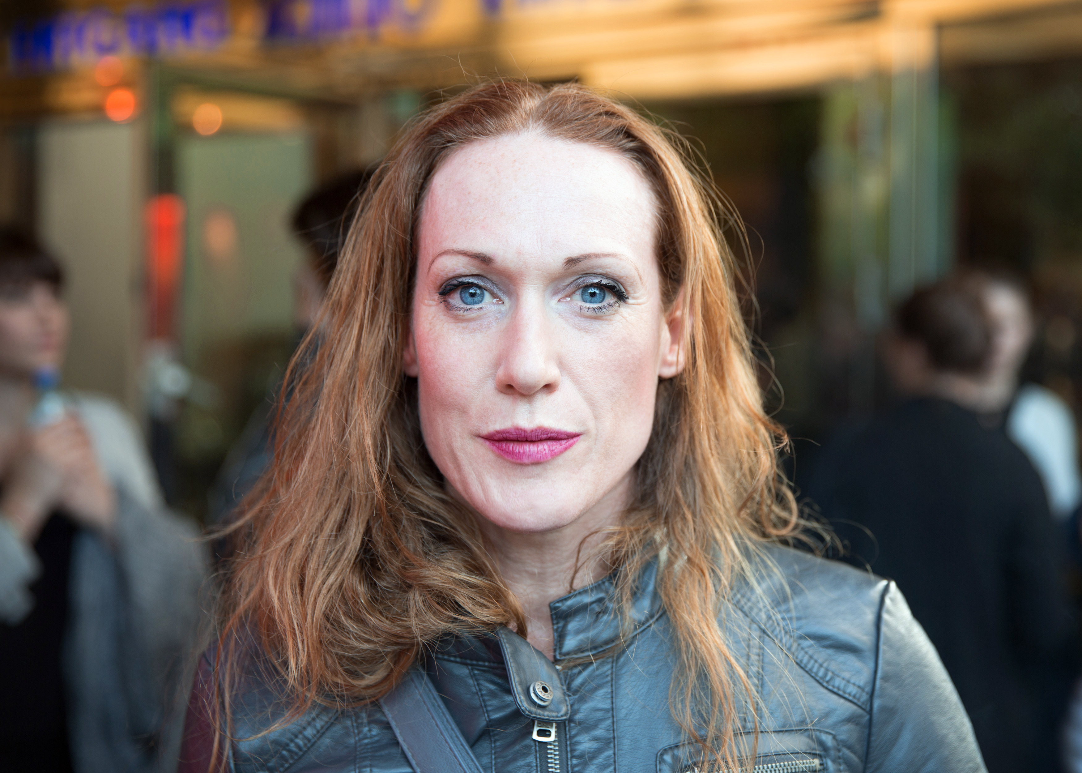 Photographer, film director and producer Tizza Covi at Vienna Independent Shorts 2016 (Gartenbaukino, Vienna, Austria).